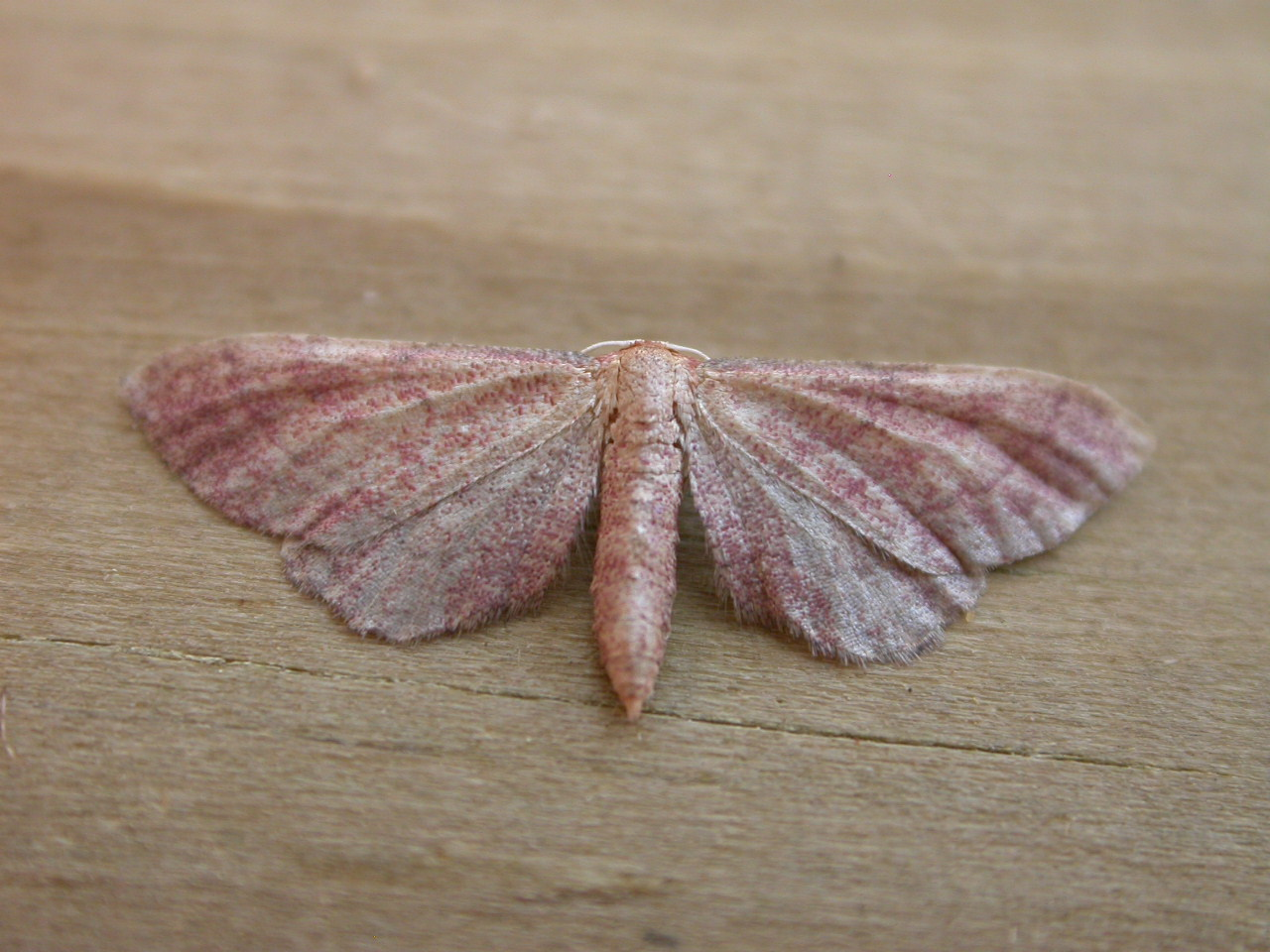 Idaea infirmaria, Gastes, Landes, SW France, 30 June/1 July 2003